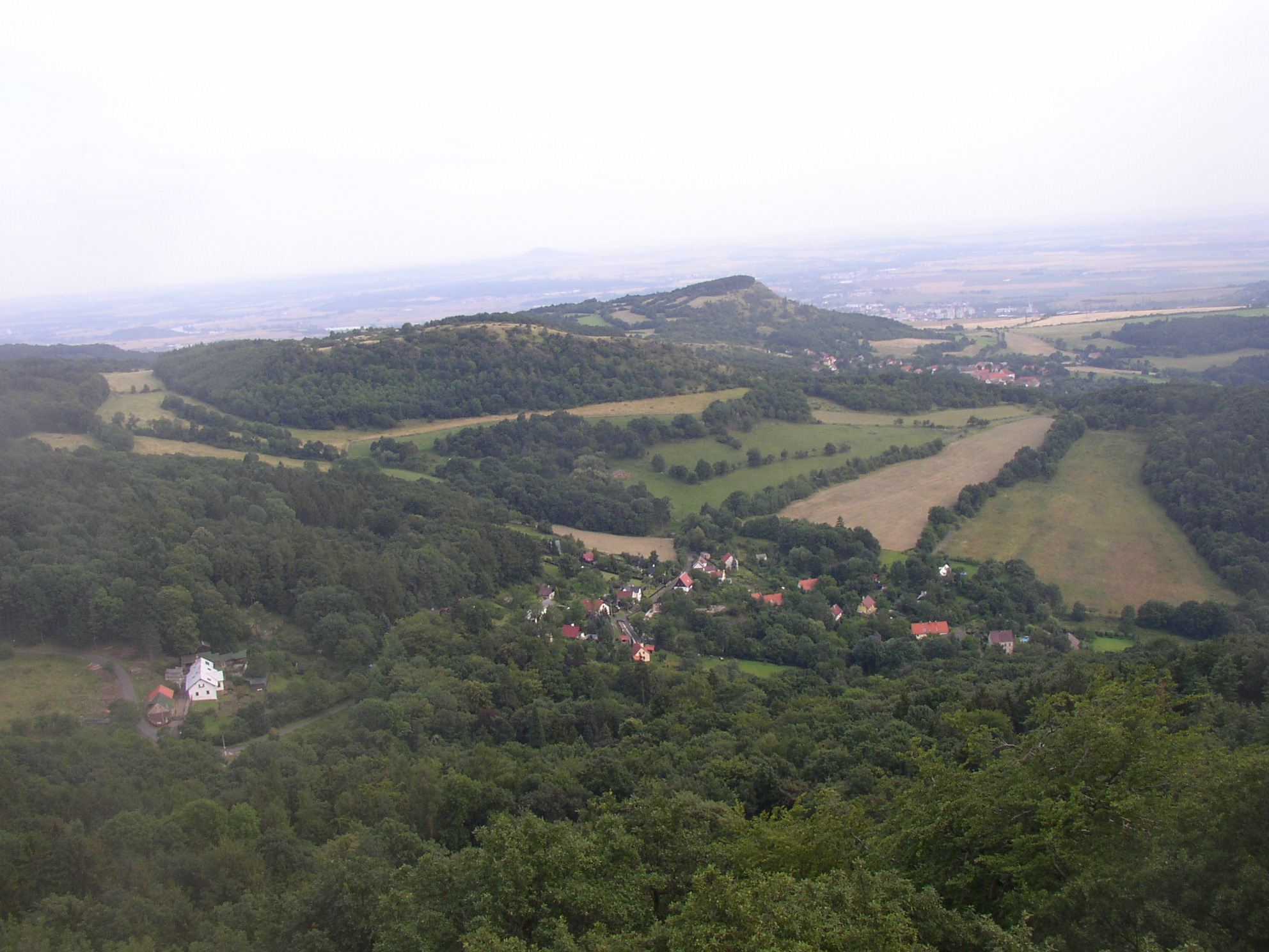 České středohoří, Czech Republic. A view from Varhošť (639 m) over village of Kundratice in southeast direction, towards Hradiště (545 m).